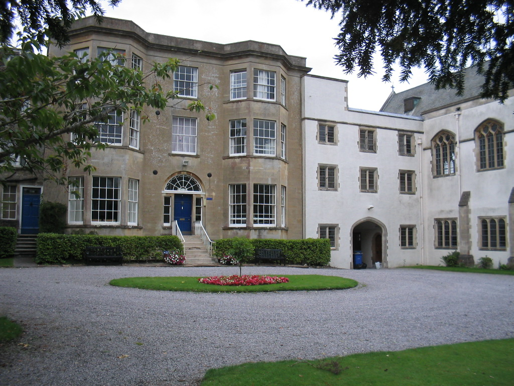 St. Boniface College Building